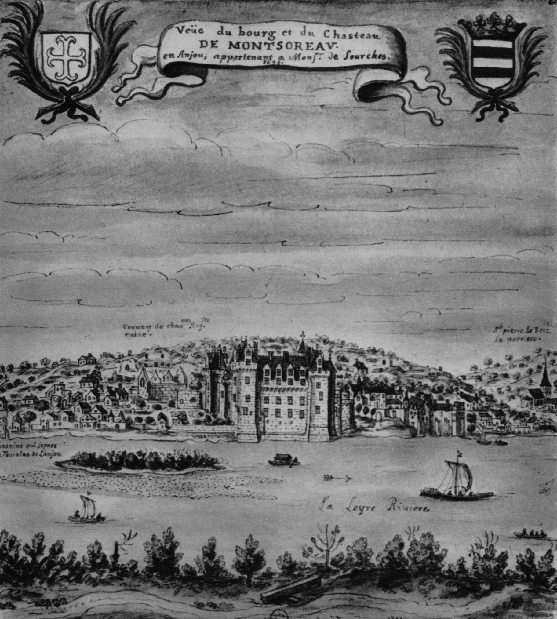 Chateau of Montsoreau in XVII century. Montsoreau in the Loire Valley is listed one of the most beautiful villages of France This building is en partie classé, en partie inscrit au titre des Monuments Historiques. It is indexed in the Base Mérimée, a database of architectural heritage maintained by the French Ministry of Culture, under the references IA49009670 and PA00109211 .